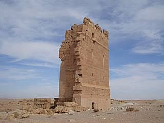 Qasr al-Hayr al-Gharbi